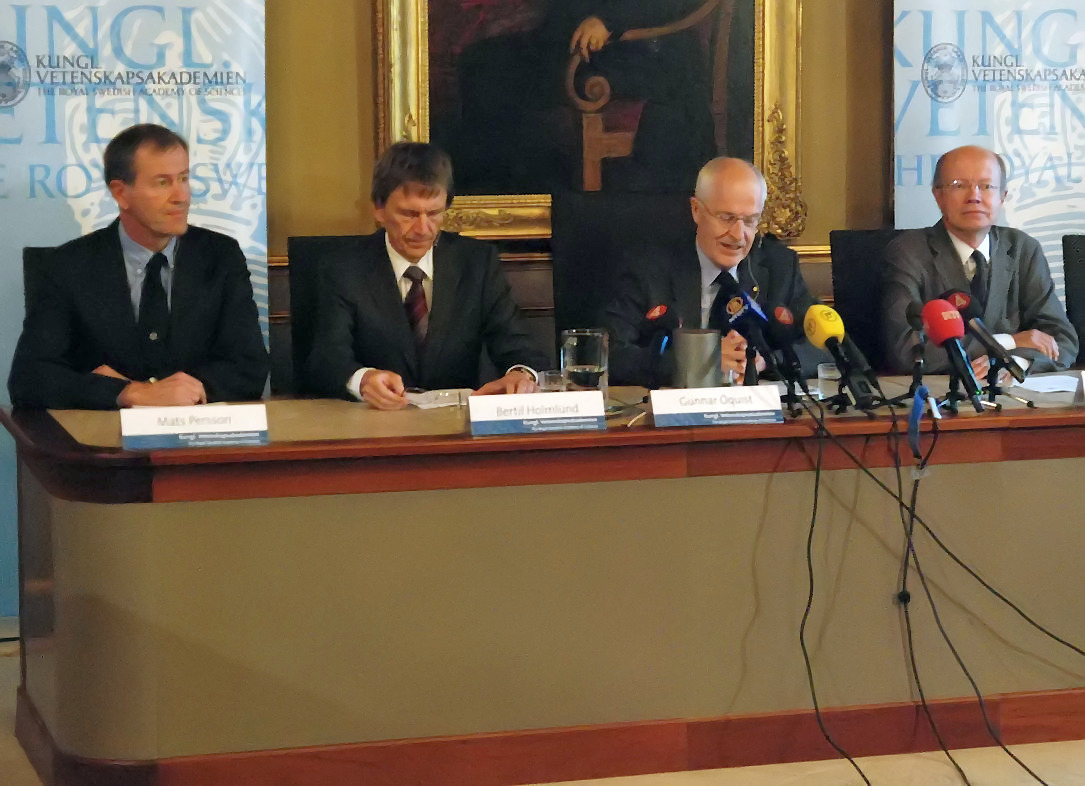 Announcement of the Laureate of the Sveriges Riksbank Prize in Economic Sciences in Memory of Alfred Nobel 2008, Mats Persson, Bertil Holmlund, Gunnar Öquist, Peter Englund